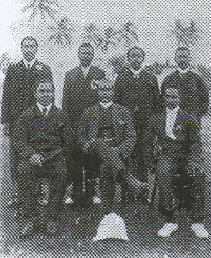 Front row (left to right): Prince Consort Tungi Mailefihi, Sione Havea, Lotima Palu Back row (left to right): 'Ikani Taliai, Tevita Kata Nau II, Suliasi Tolu and Lesinali Tovo